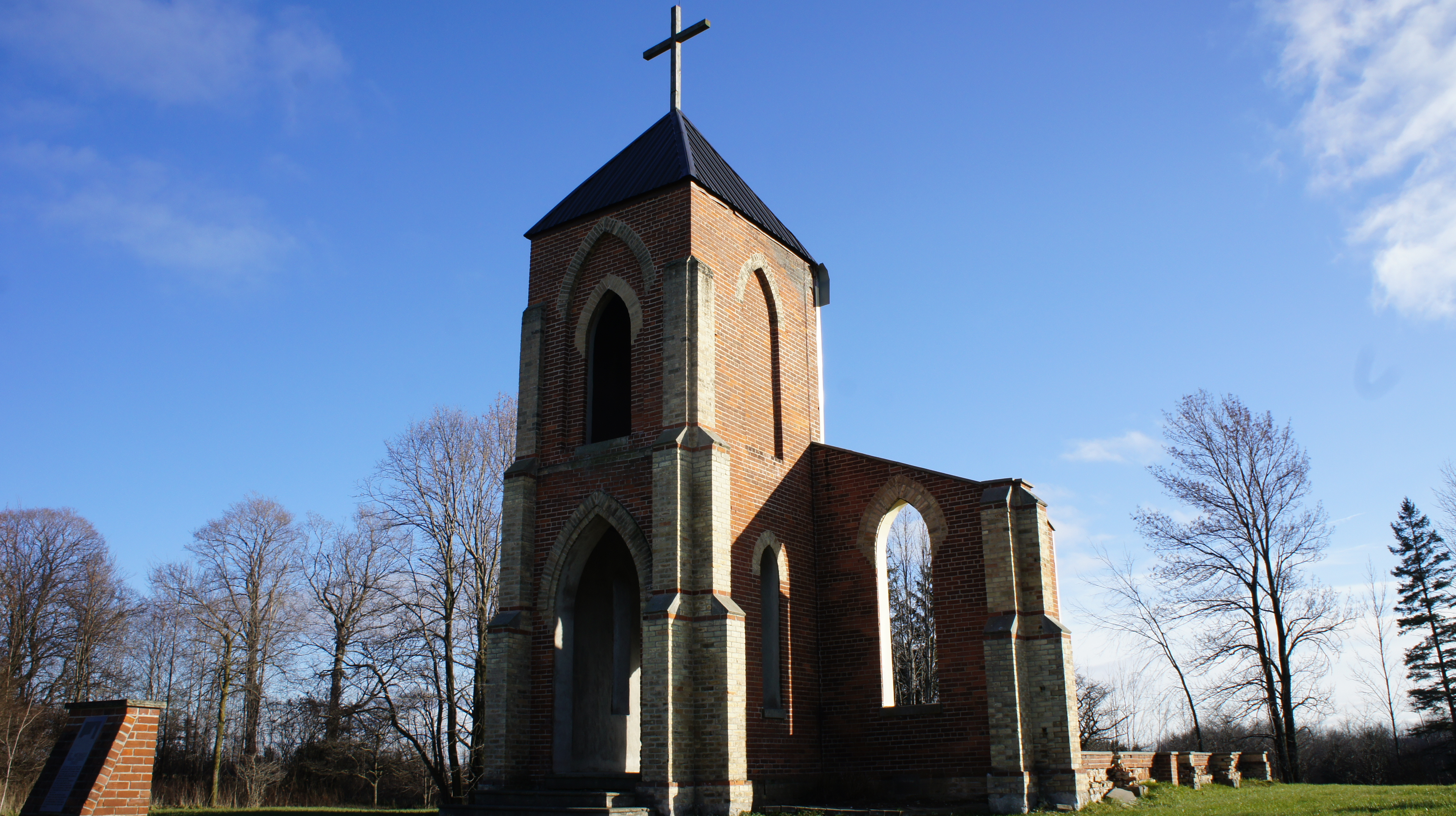 St. Michael Church - North Brant Ontario